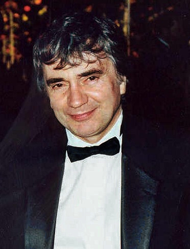 Dudley Moore, Photo taken at the 43rd Emmy Awards 8/25/91